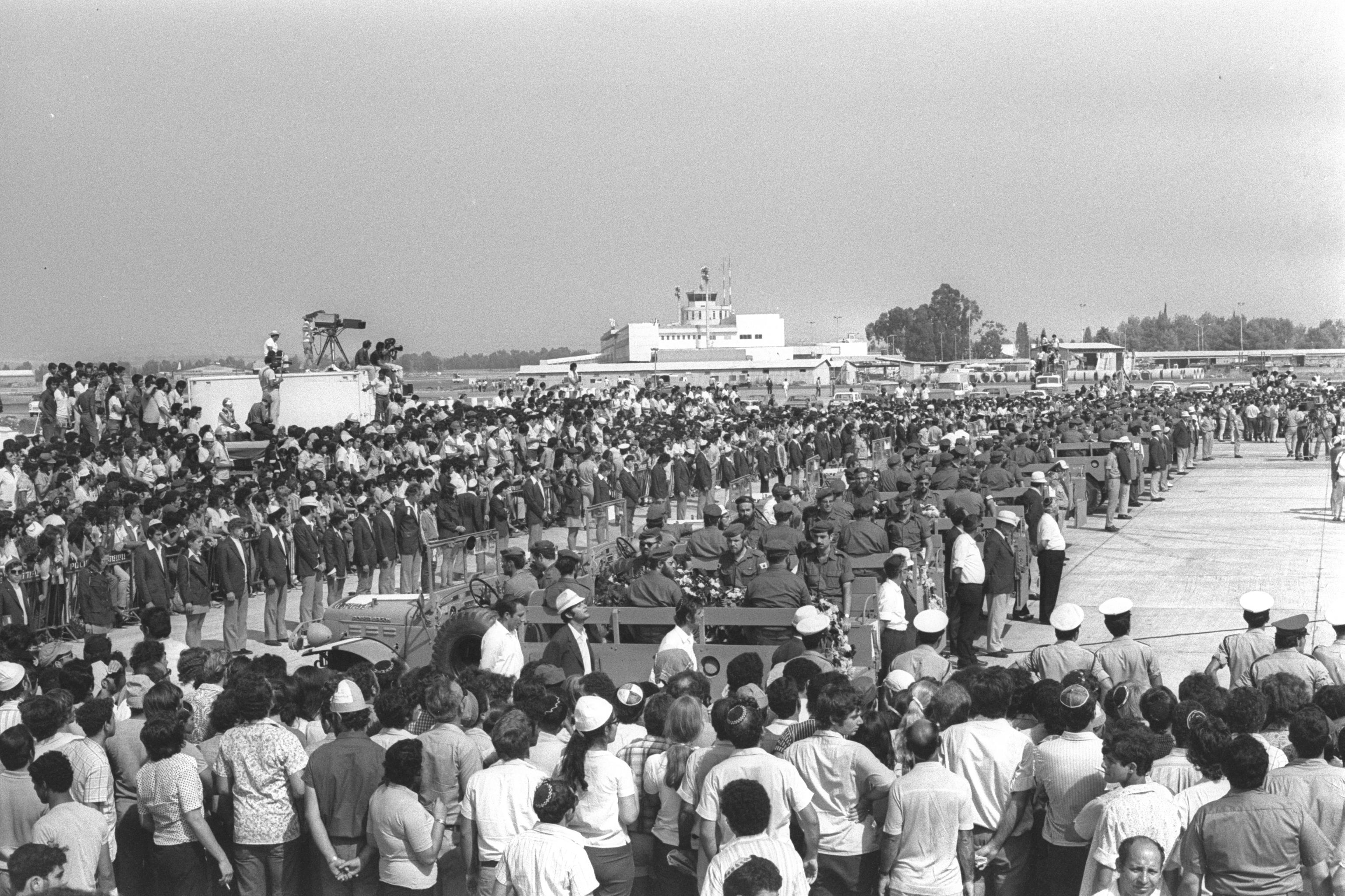 Coffins of ten Israeli athletes murdered by Arab terrorists are lined up aboard command cars during a memorial ceremony at Lod Airport before burial at local cemeteries. ארונותיהם של עשר הספורטאים הישראלים שנרצחו על ידי מחבלים ערבים במהלך טקס אזכרה בנמל התעופה לוד לפני טקסי הקבורה בבתי העלמין המקומיים. Photo: David Eldan (1914–1989) Alternative names דוד אנדי אלדןDescriptionIsraeli photographerDate of birth/death 1914 1989Location of birth/death Austria IsraelAuthority control : Q28732278 VIAF: 308269478 NLI: 001447893 creator QS:P170,Q28732278 , 07/09/1972.